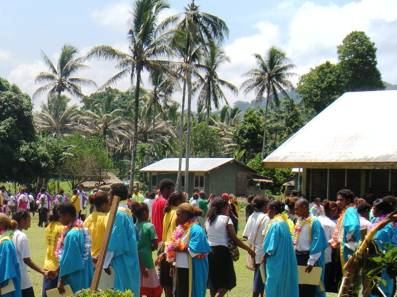 Photo of graduation day